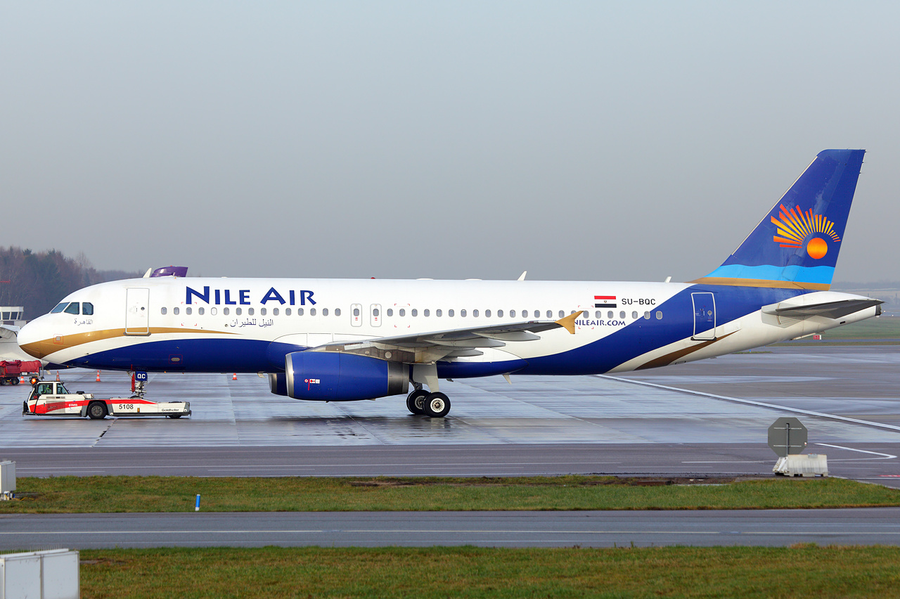 Nile Air Airbus A320-232 (SU-BQC) at Hamburg Airport for maintenance at Lufthansa Technik